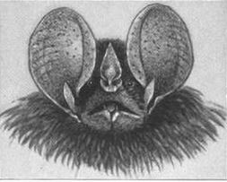 illustration of Micronycteris megalotis